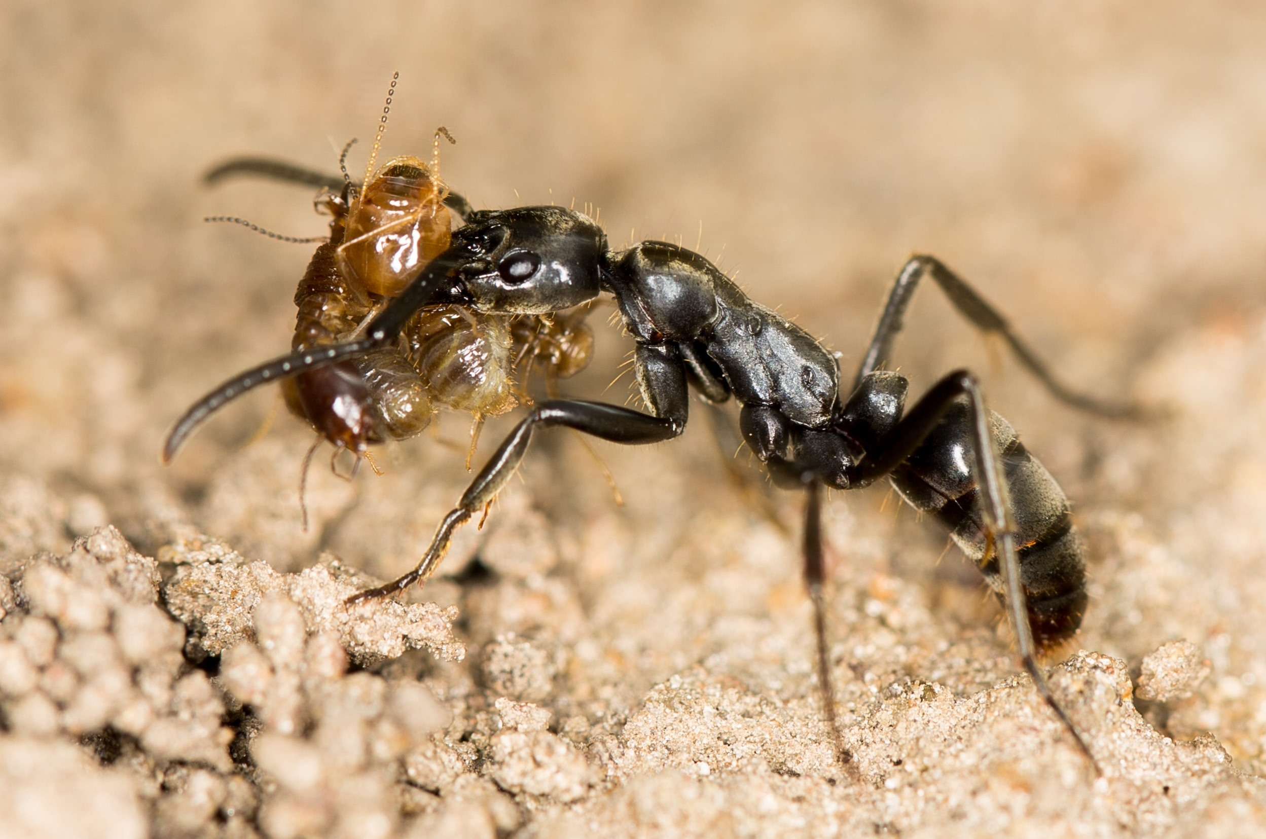 Megaponera analis worker transporting termites